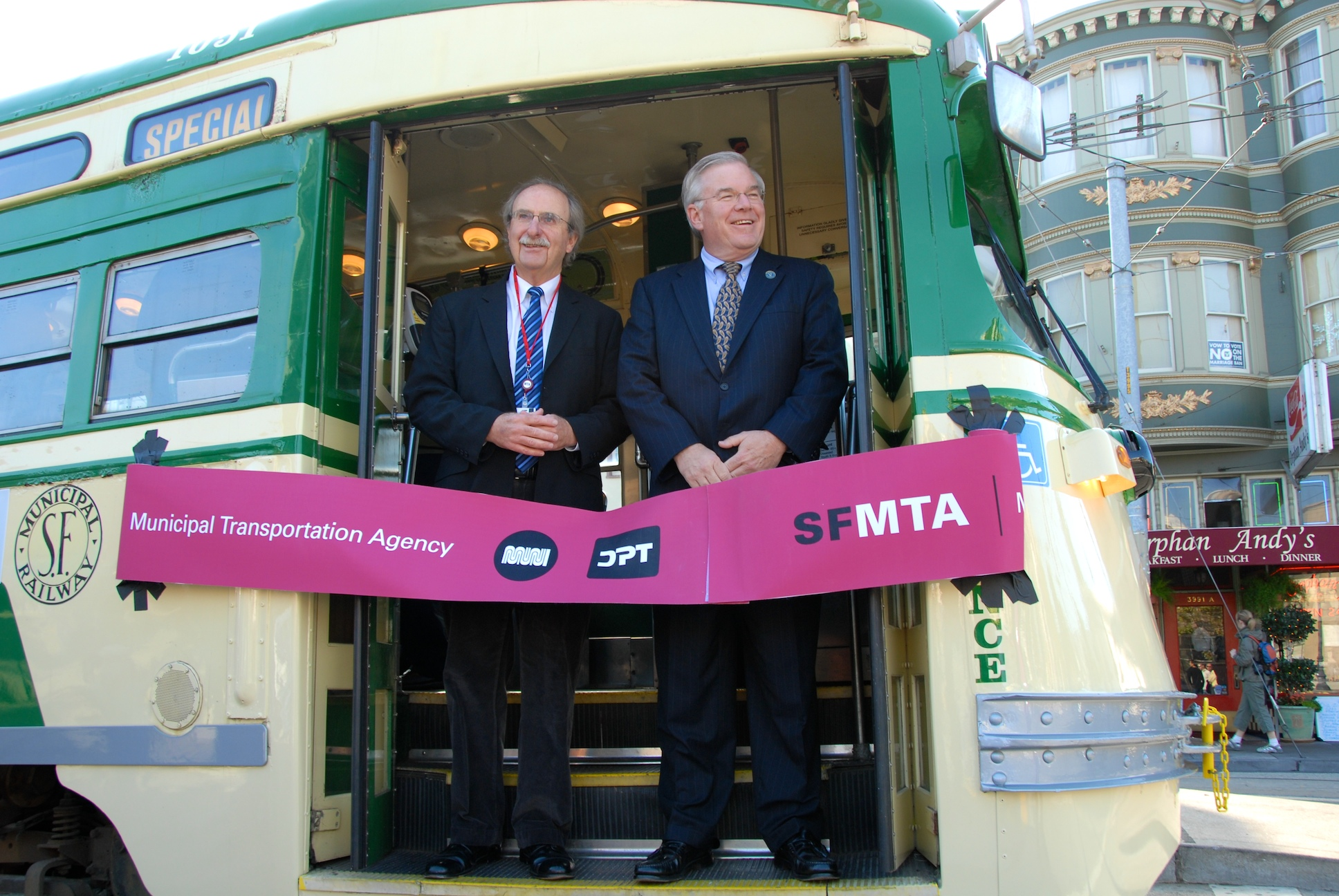 Harvey Milk streetcar dedication, San Francisco Municipal Transportation Agency